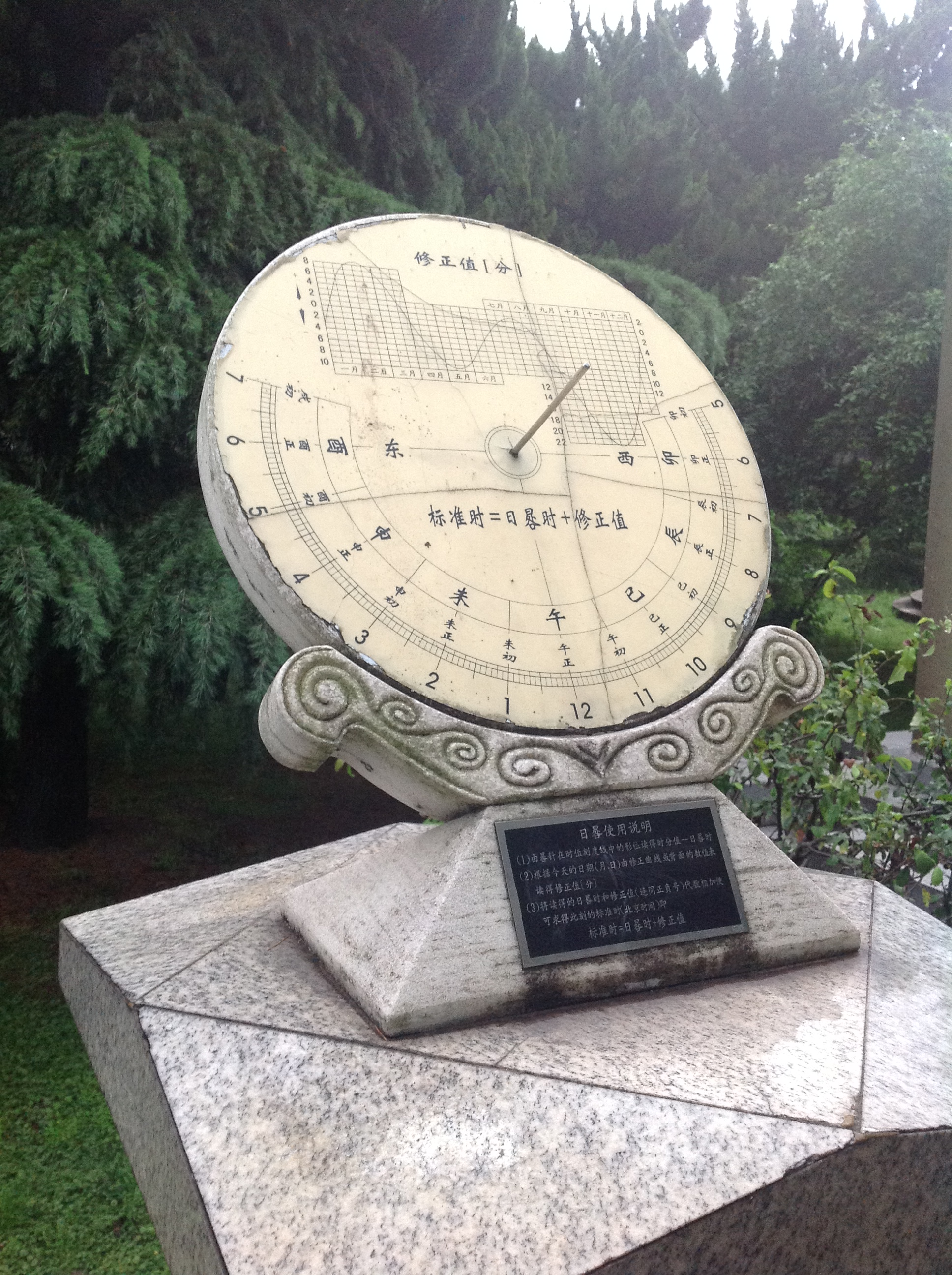 Details of the sundial in SJTU.